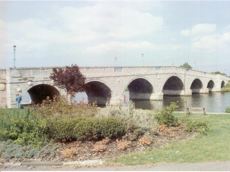 Chertsey Bridge, between Chertsey and Laleham.